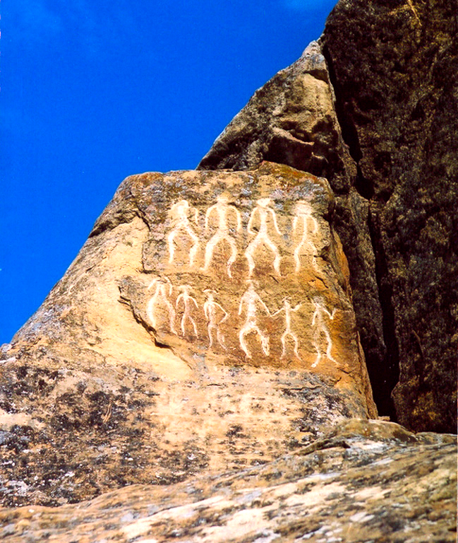 full photo of Gobustan rock drawing